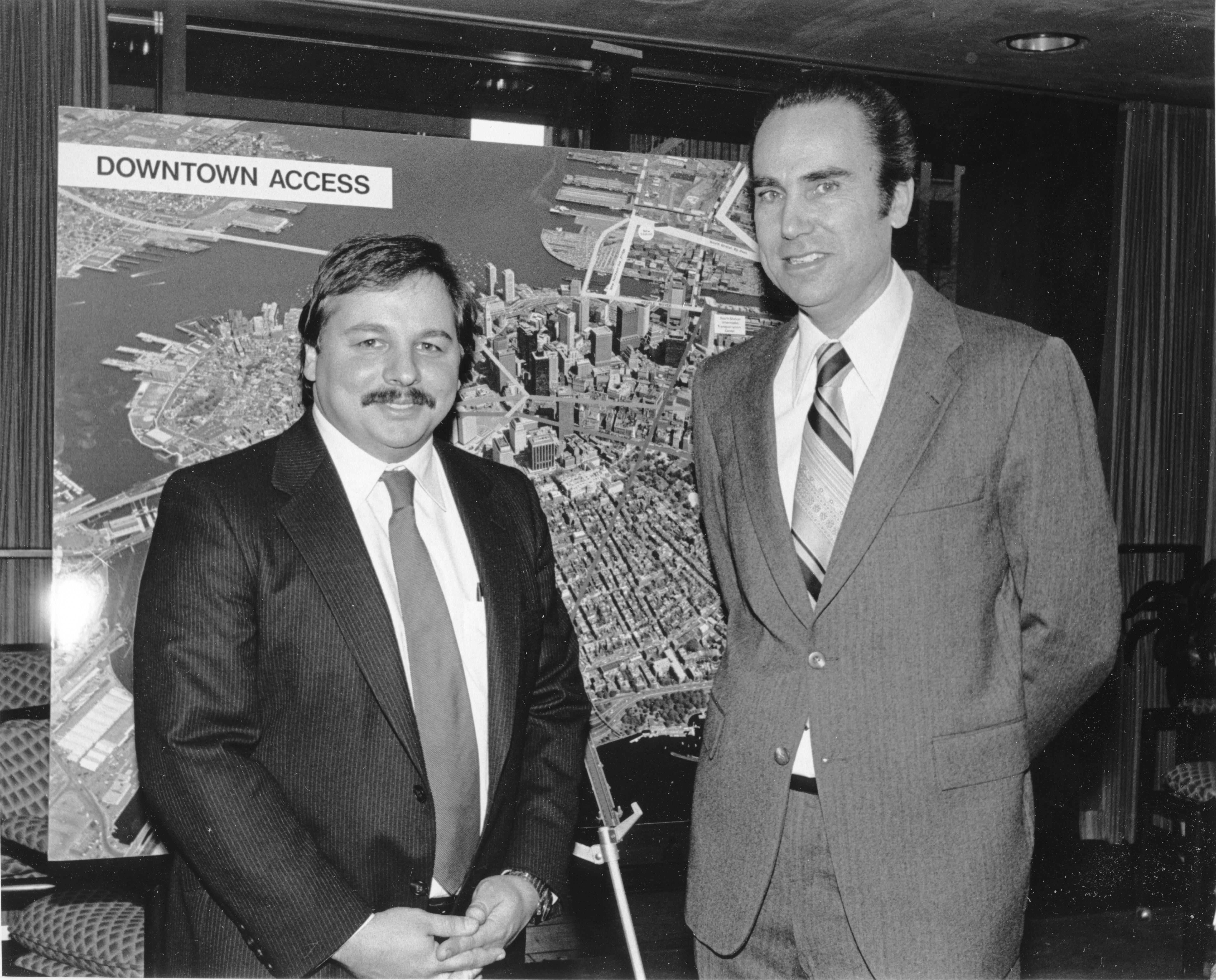 Title: Transportation Commissioner Richard A. Dimino and State Secretary of Transportation Frederick P. Salvucci Creator: Mayor's Office - City Photographer Date: circa 1984-1987 Source: Mayor Raymond L. Flynn records, Collection #0246.001 File name: RF_057 Rights: Copyright City of Boston Citation: Mayor Raymond L. Flynn records, Collection #0246.001, City of Boston Archives, Boston